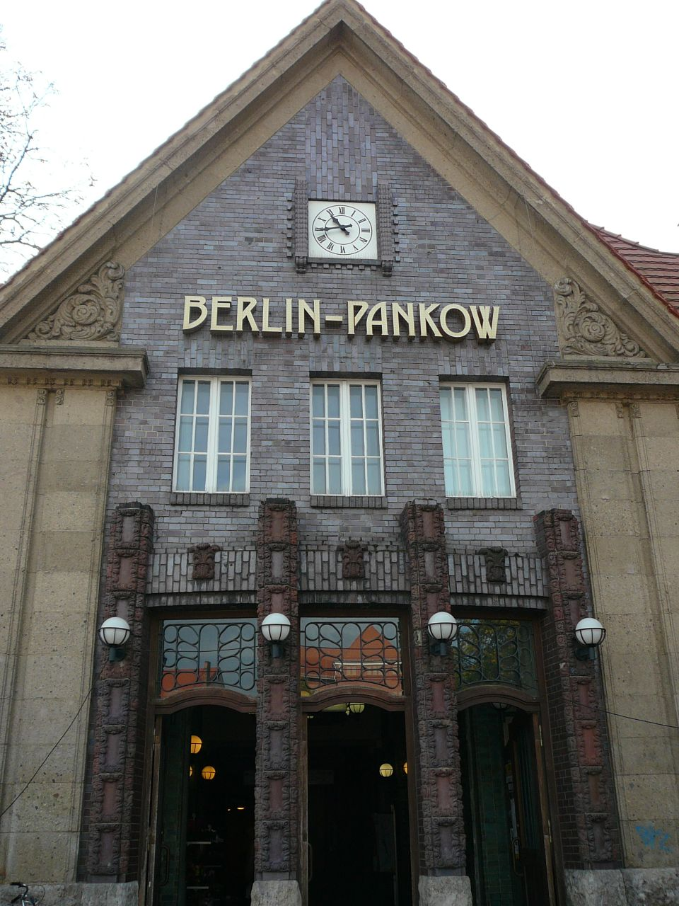 Belin-Pankow railway station